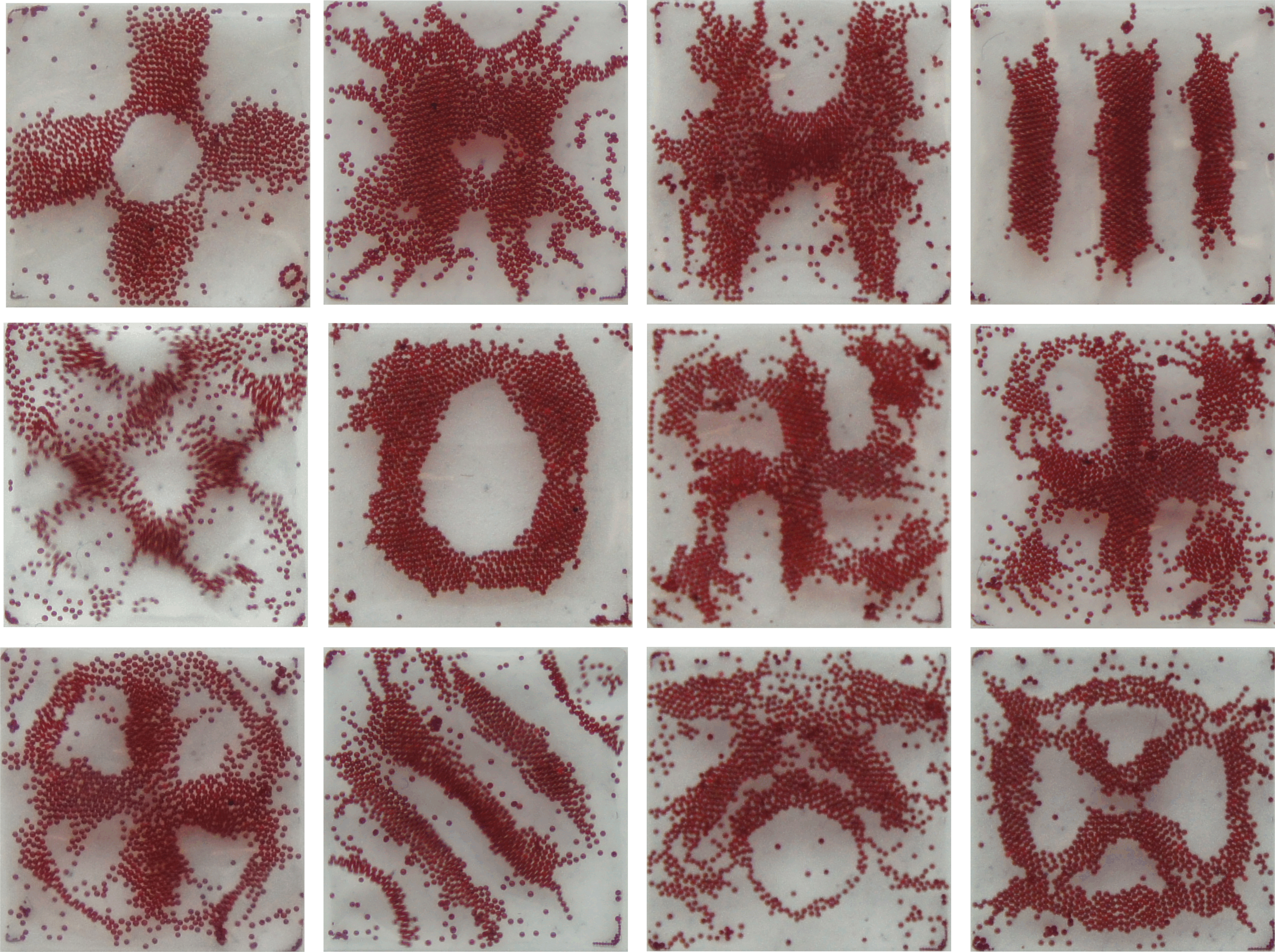 Faraday waves are used as a reconfigurable liquid-based template for assembly. Microscale polystyrene beads (200 micrometers in diameter) are assembled on the nodal regions of the waves.